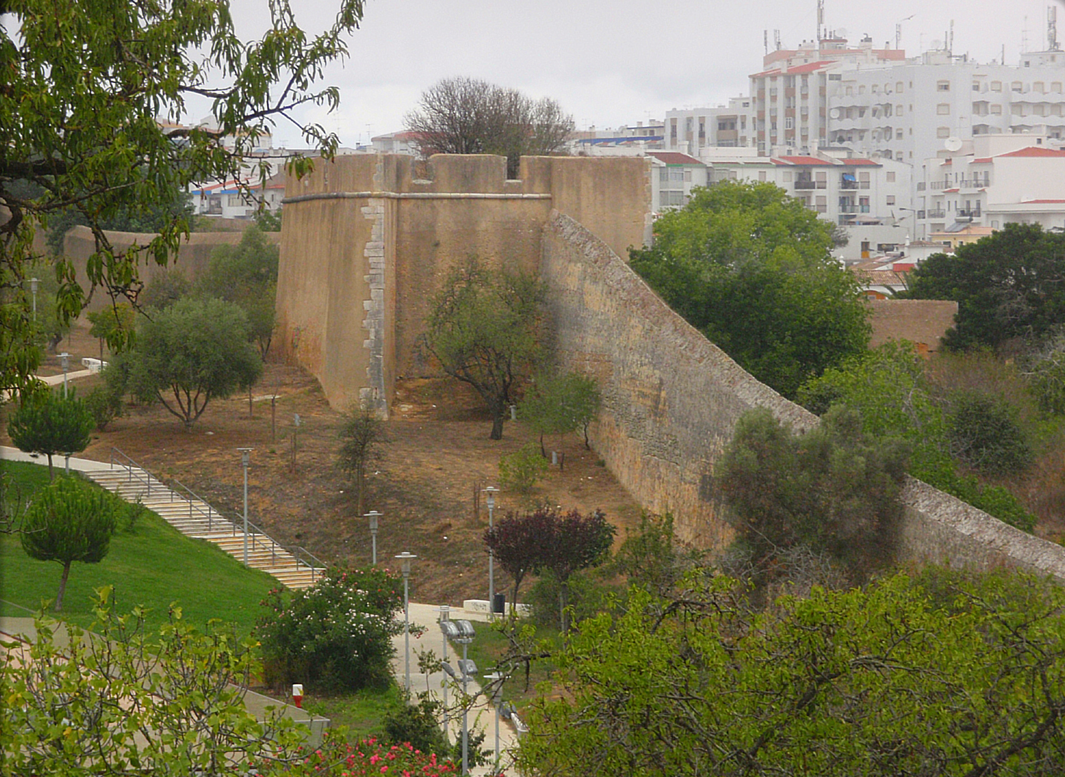 A view of the city walls in the city park within the city of Lagos, Algarve, Portugal.